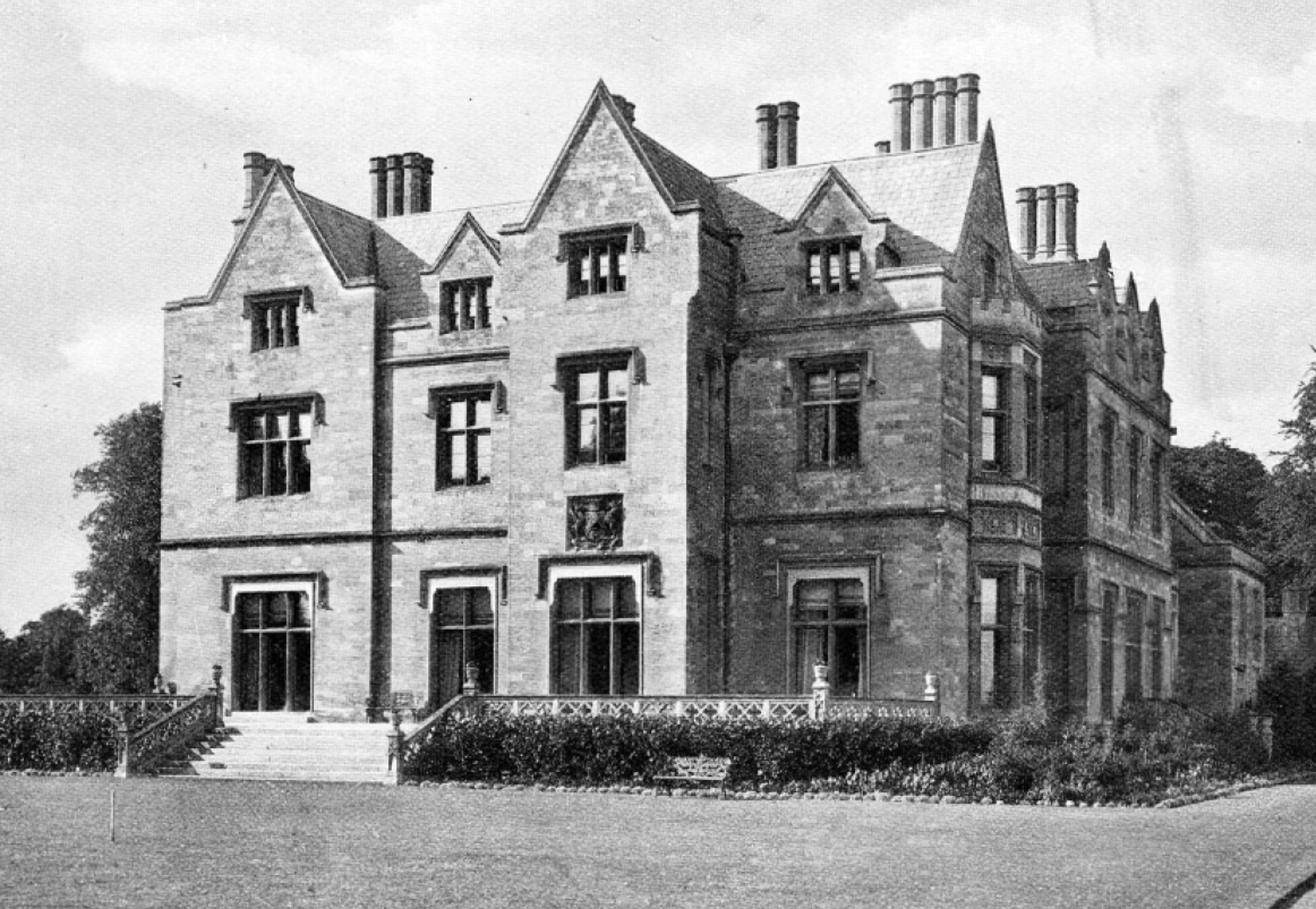 Nocton Hall, Lincolnshire, 1901